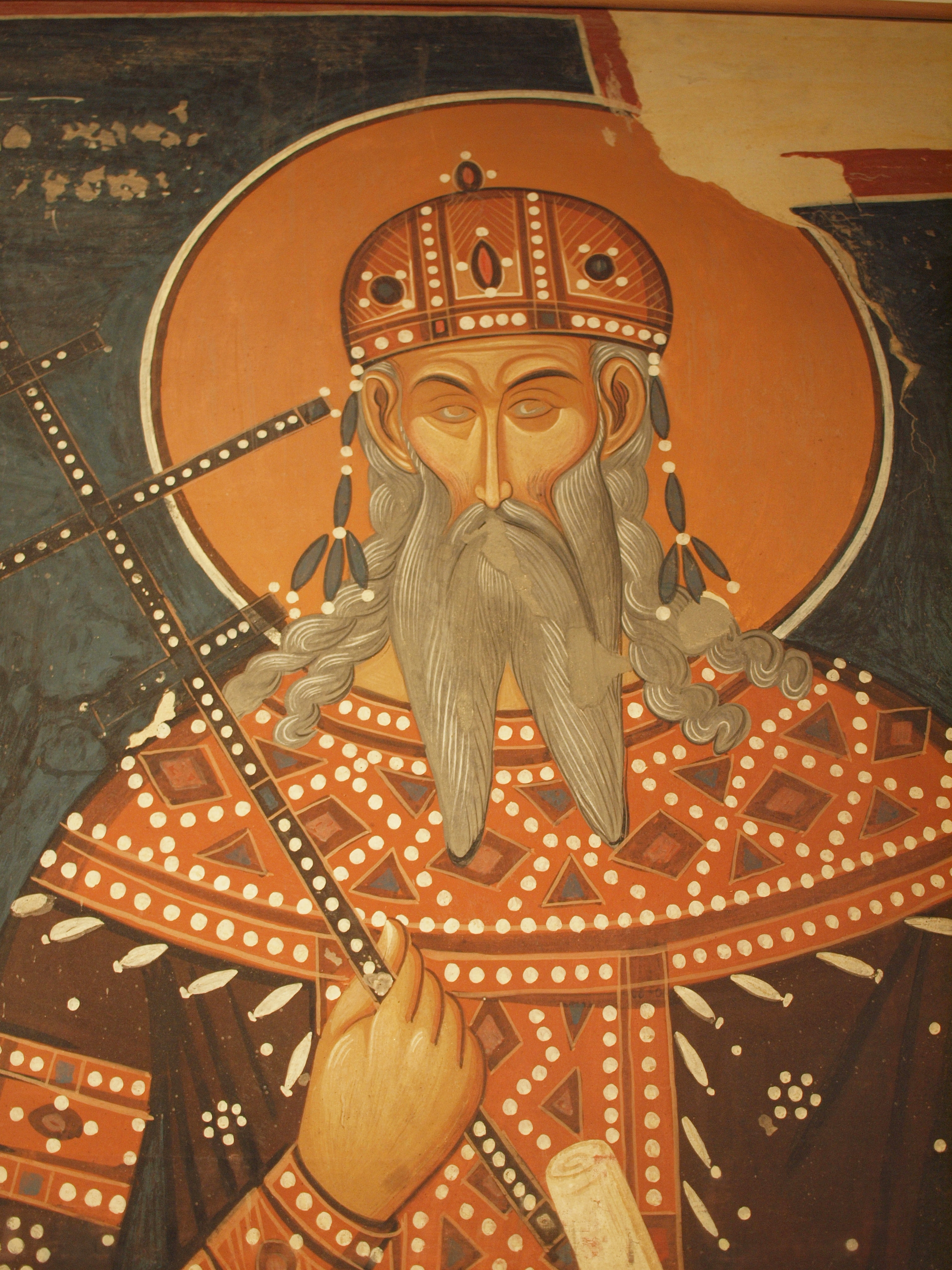 Vukašin Mrnjavčević fresco Psaca